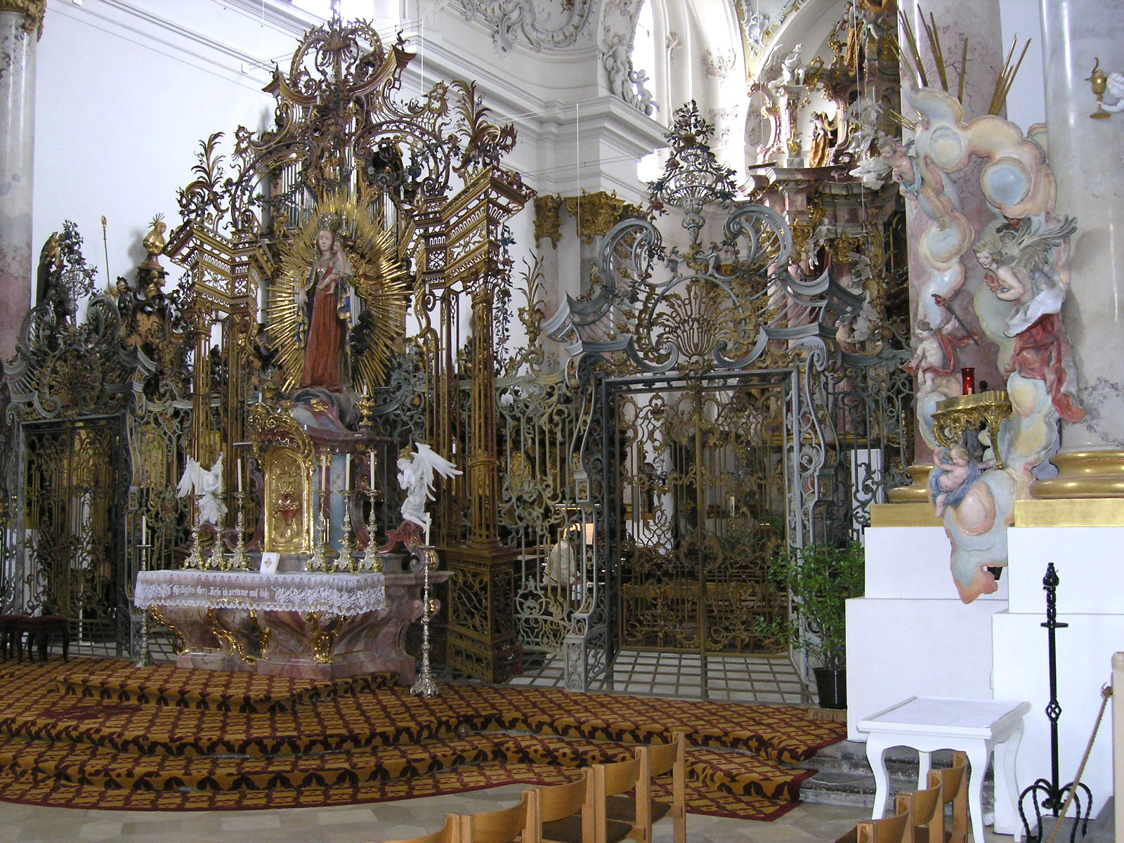 Monastery church of Zwiefalten/Germany